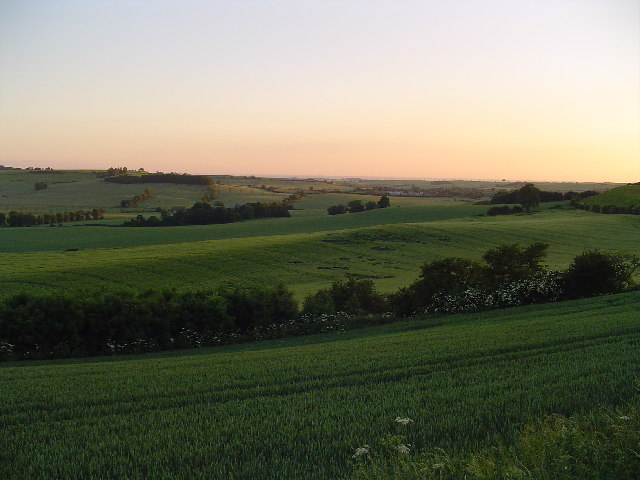 Lincolnshire Wolds from Bluestone Heath Road. Lincolnshire Wolds from Bluestone Heath Road - Taken from the viewpoint marked on the OS Landranger, looking towards Horncastle. Taken on a beautiful calm summer evening - there's so much space out here, miles of gentle rolling hills.